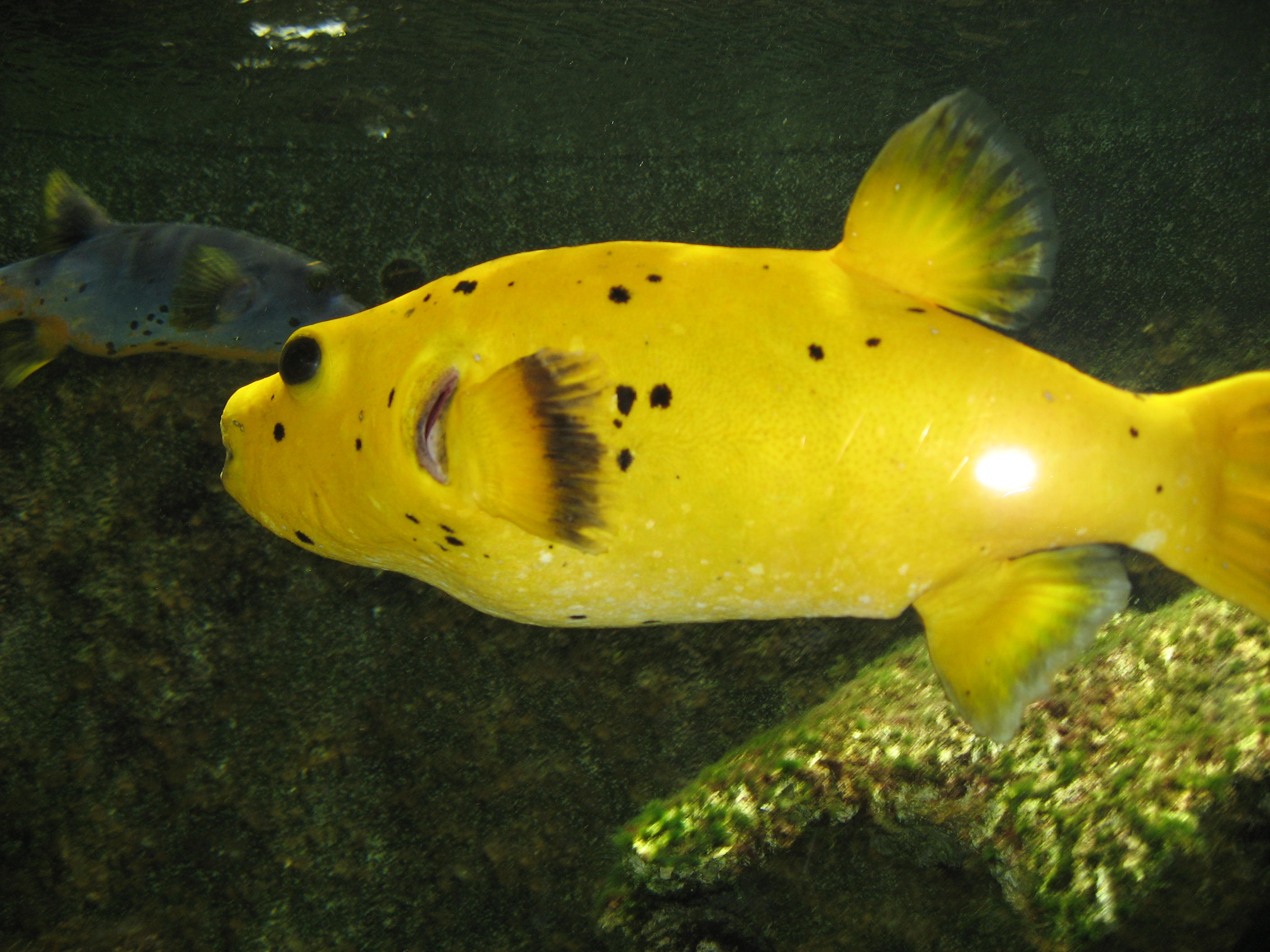 Arothron nigropunctatus in Muséum-aquarium de Nancy Map: 48° 41' 41" N 6° 11' 18" E